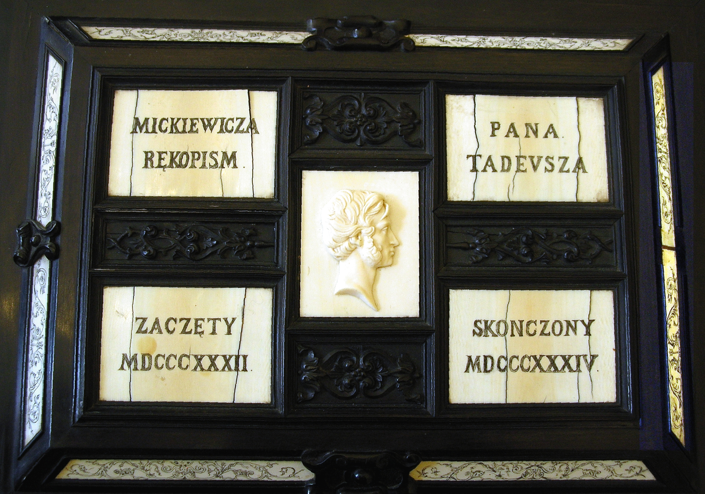 Ebony casket destined for the reception of manuscript of epic poem "Pan Tadeusz" by Adam Mickiewicz. Casket was made in 1873 by sculptor Józef Brzostowski. Housed in the collection of the Ossolinski National Institute in Wrocław.